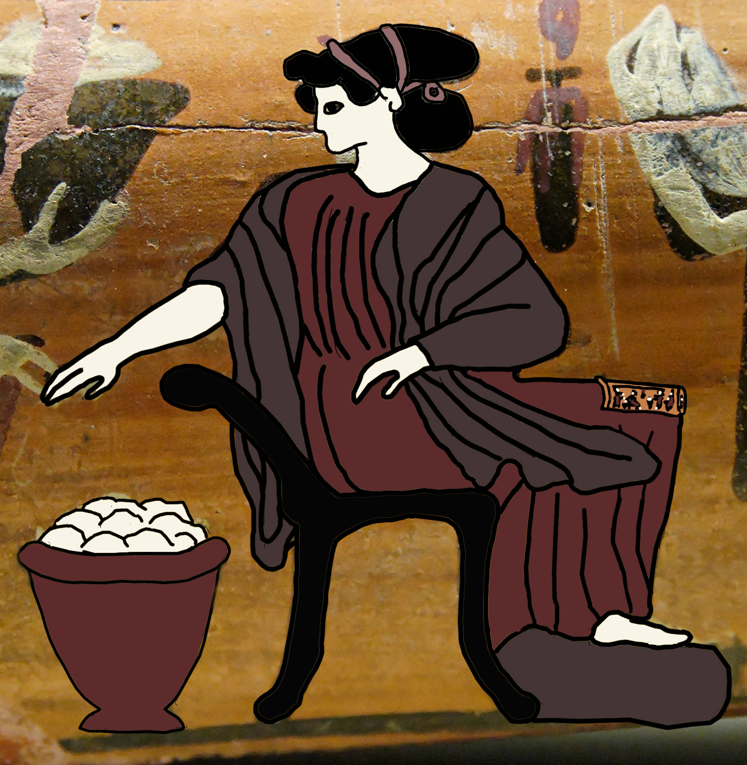 My own drawing over a photo showing the use of an "epinetron".